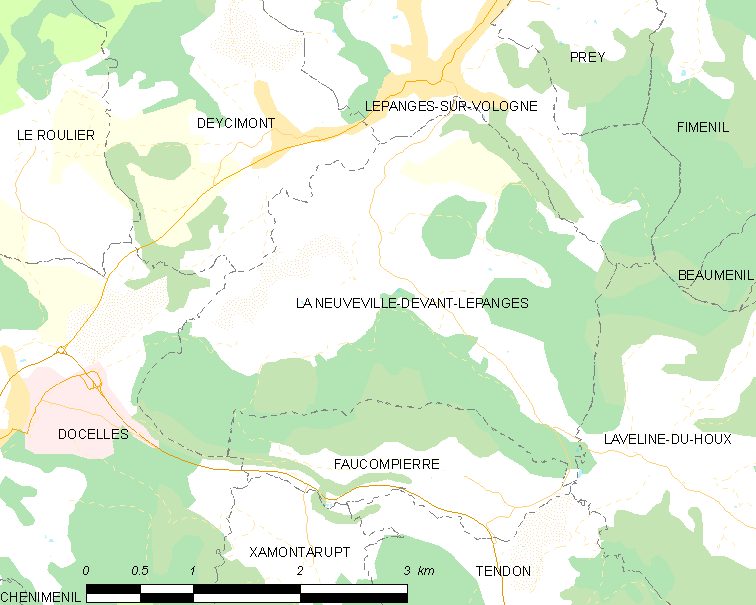 Map of French municipality La Neuveville-devant-Lépanges